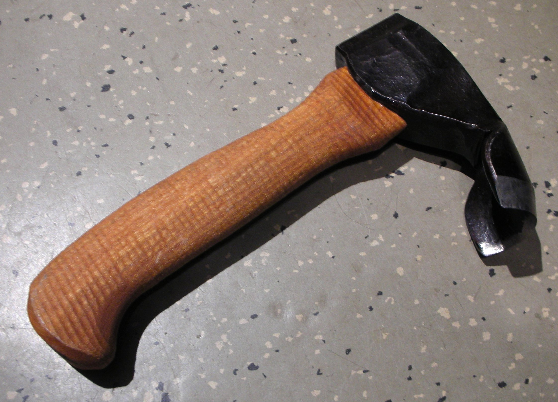 Trough adze